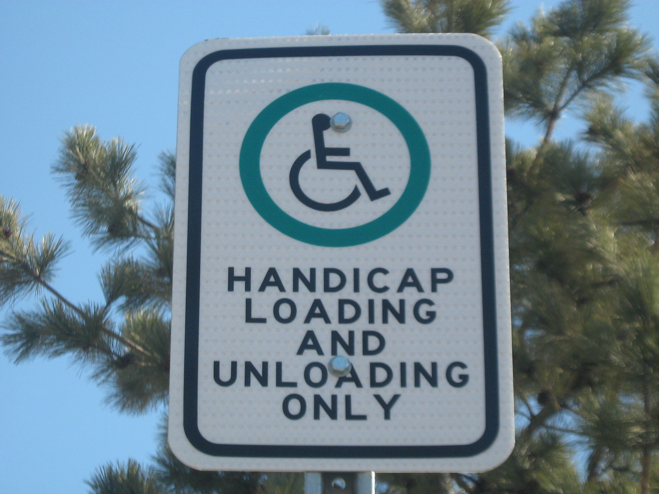 Handicap sign, Dryden, Ontario, Canada